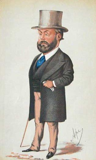 Chromolithographic caricature of Mr Algernon Borthwick, later 1st Baron Glenesk. Caption read "The Morning Post".